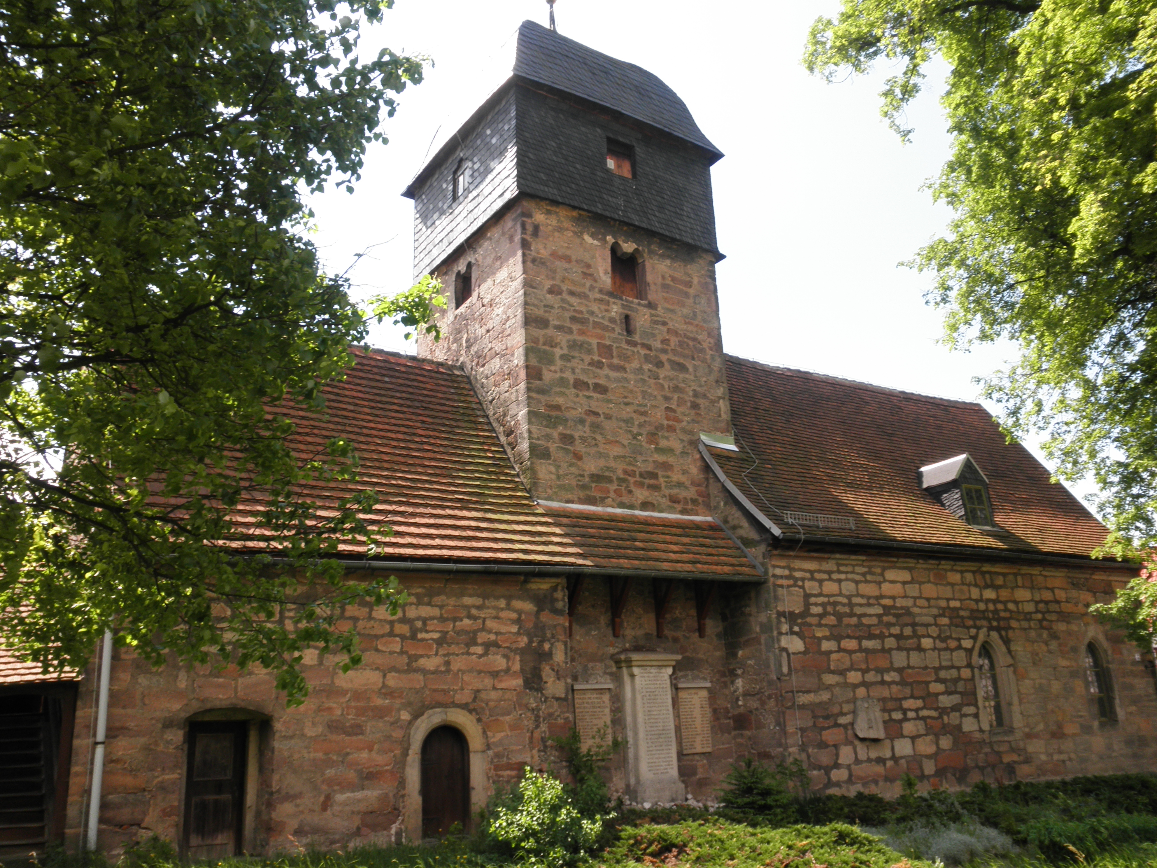 Church in Großkochberg in Thüringen